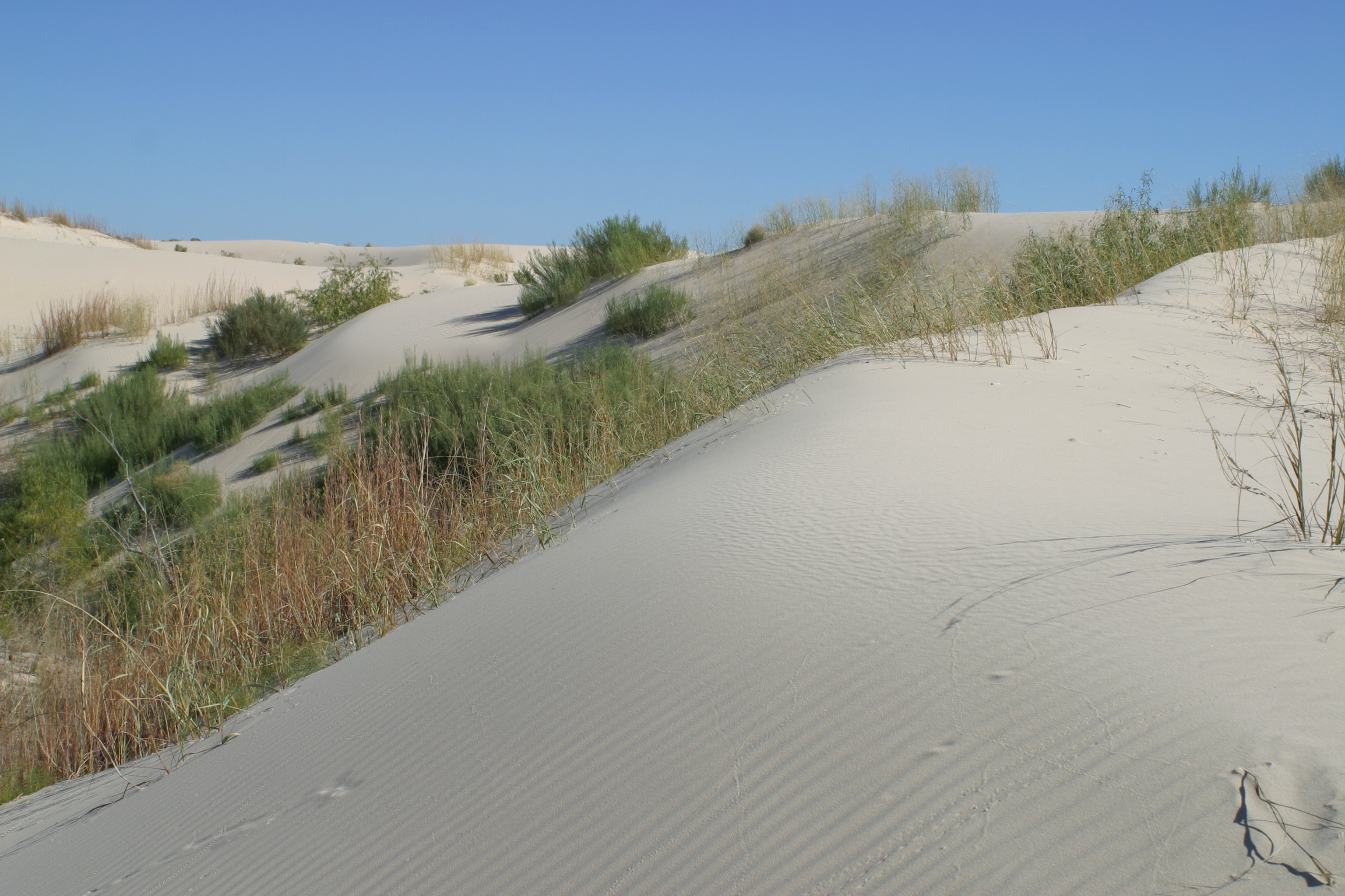 The light-colored sands of Monahans Sandhills State Park, Texas